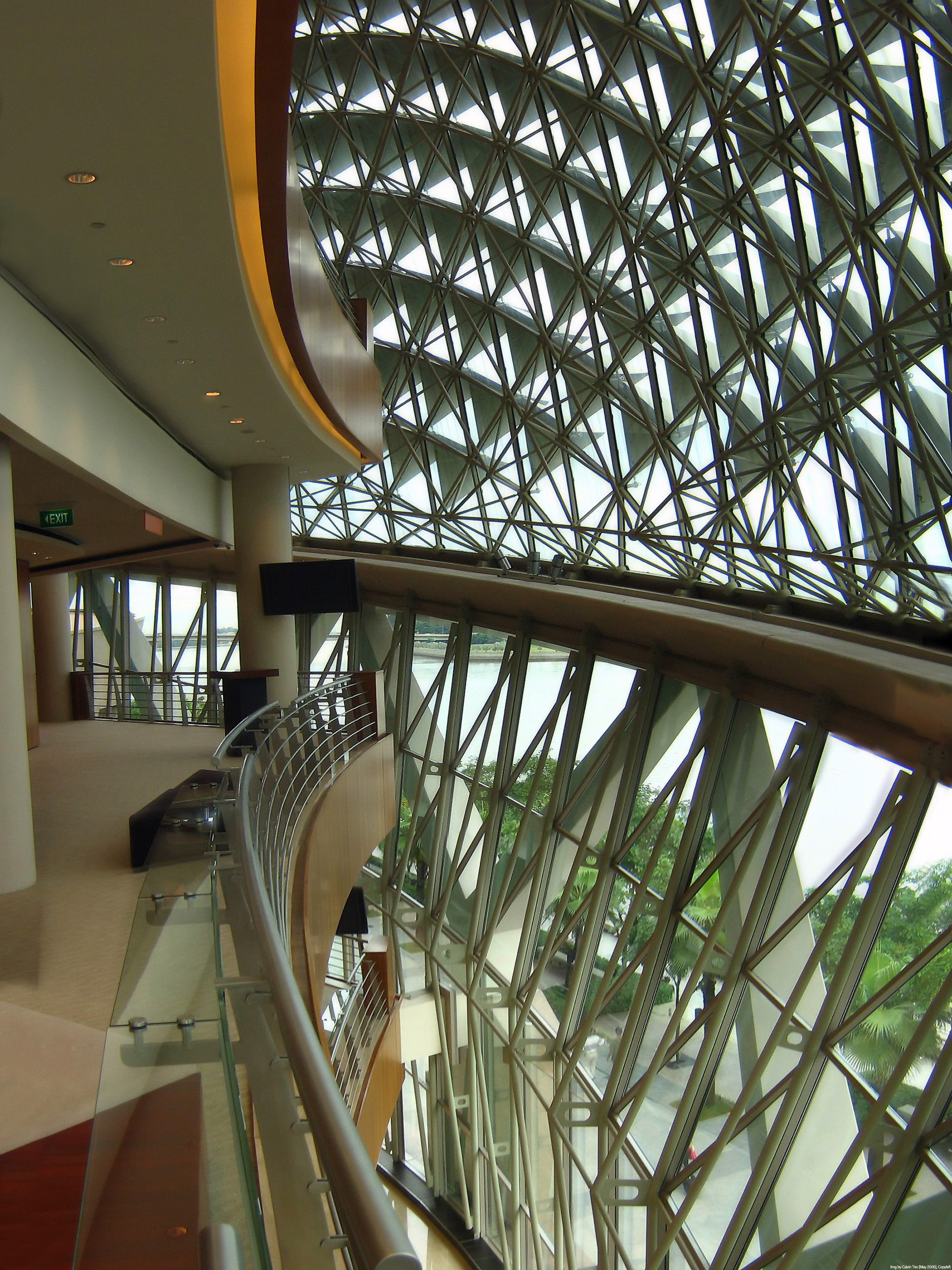 Interior of Esplanade - Theaters on the bay, Singapore Circle 2 Reception area of the Esplanade Concert Hall Img by Calvin Teo, May 2006